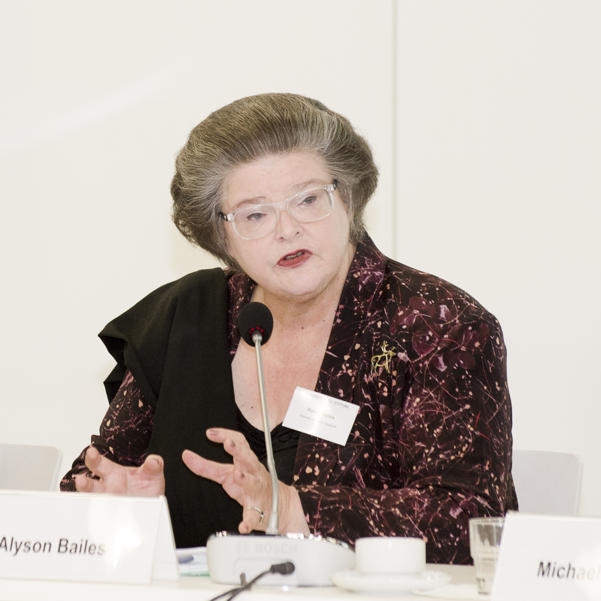 Alyson Bailes, University of Iceland, Reykjavik